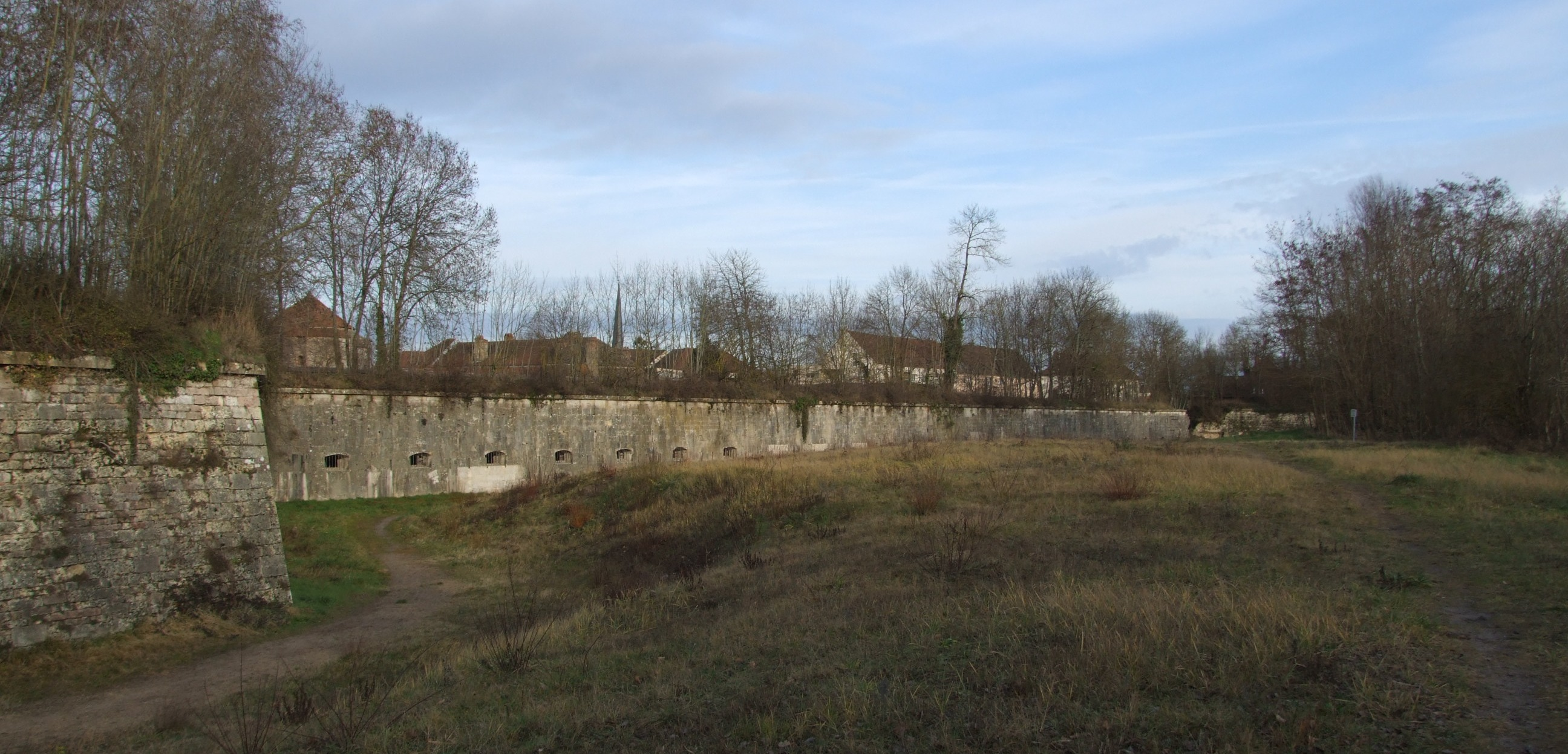 Auxonne, Burgundy, FRANCE